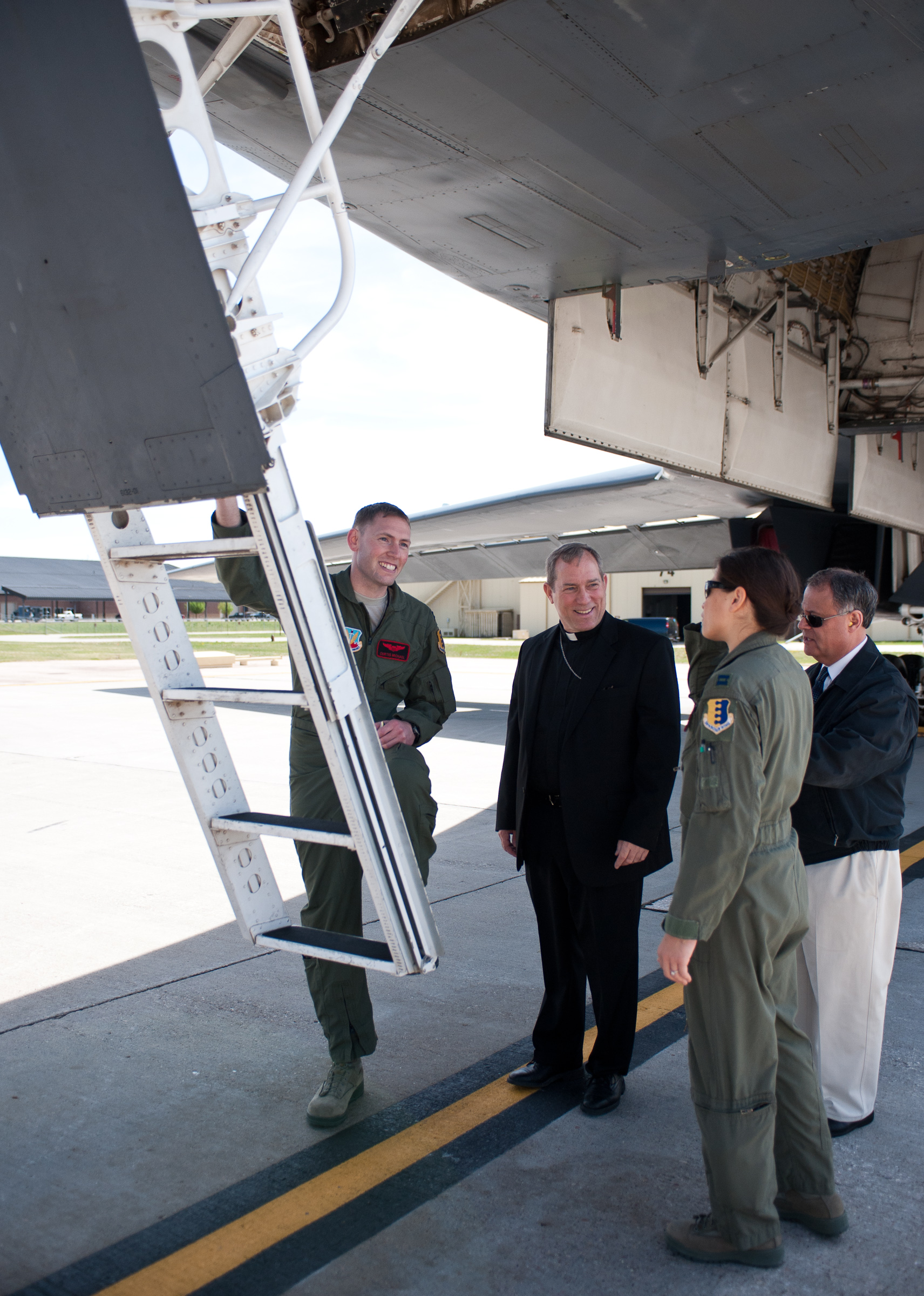 Capt. Curtis Michael, 34th Bomb Squadron pilot (left), and Capt. Miranda Brasko, 34th BS weapon systems operator, provide Bishop Robert Gruss, Bishop of the Diocese of Rapid City, and Deacon Raul Daniels, 28th Bomb Wing Catholic community coordinator/pastoral associate, a tour inside the cockpit of a B-1 bomber during the bishop’s tour of Ellsworth Air Force Base, S.D., May 2, 2012. The Bishop visited Ellsworth to become familiar with the base and to better understand the mission and challenges of Ellsworth Airmen.